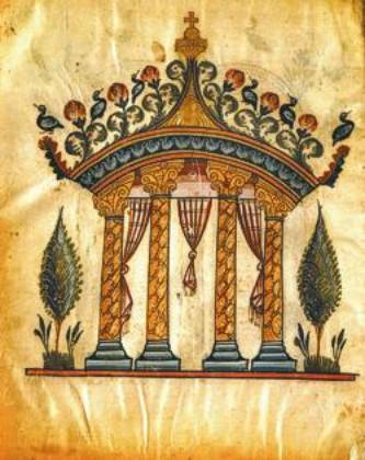 An architectural detail